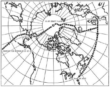 Original caption: CHART SHOWS route of Nautilusunder the North Pole.